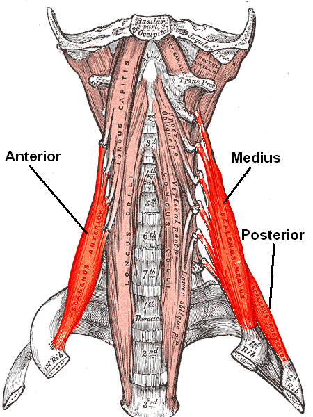 Application of Gray387.png Scalenus muscles